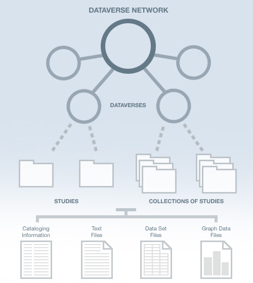 Diagram of the Dataverse Network